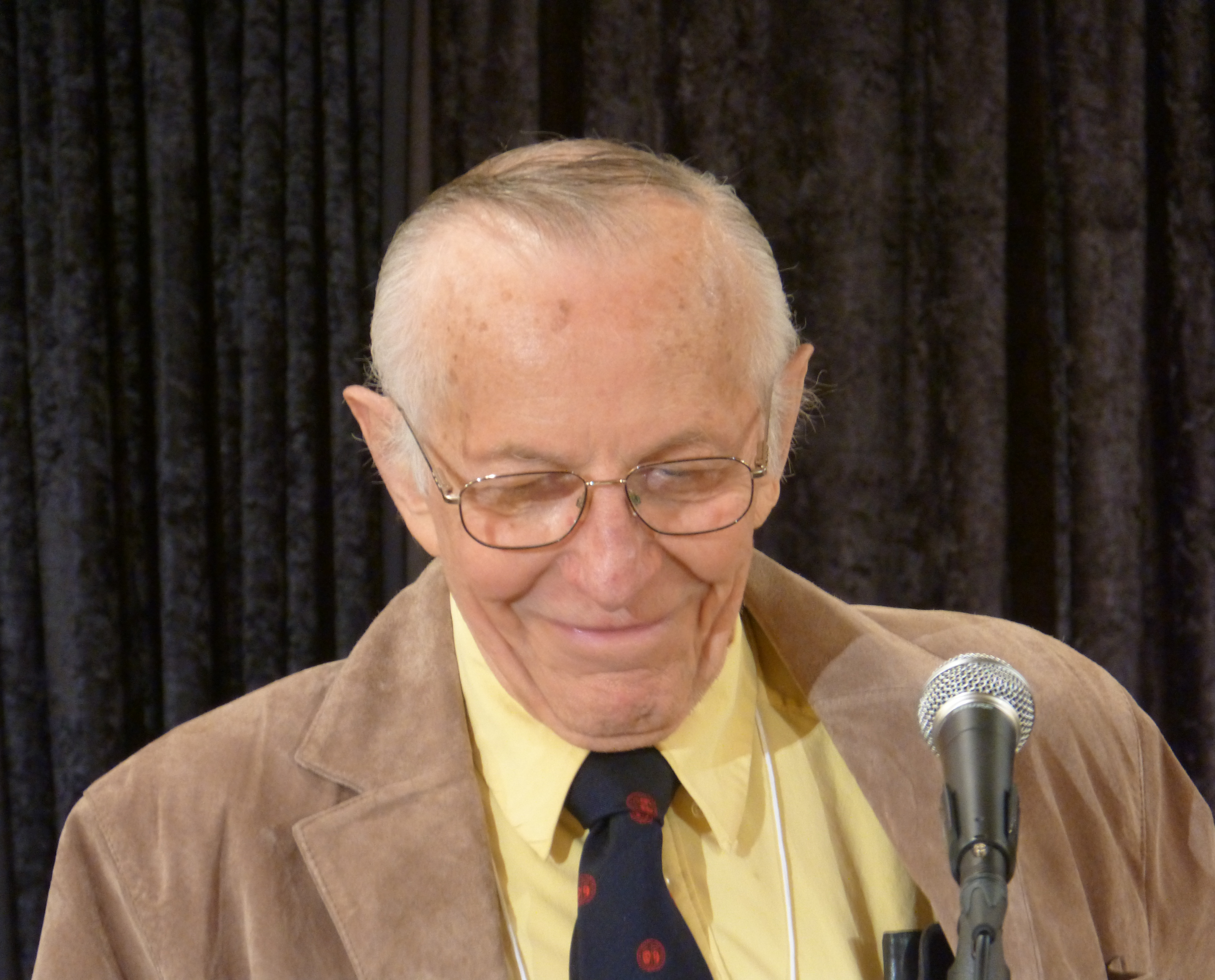 A photo of Jan Merlin